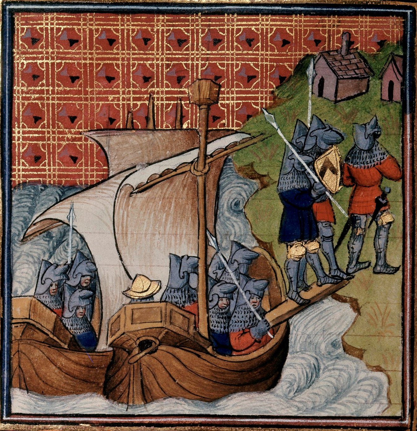 Detail of a miniature of the English landing in Normandy. Chroniques de France ou de St Denis (from 1270 to 1380). Last quarter of the 14th century, after 1380.